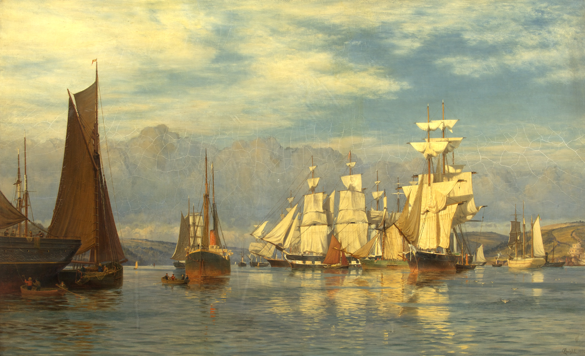 Falmouth Harbour, by Charles Parsons Knight. Bristol Museums, Galleries & Archives